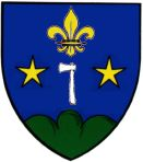 Coat of arms of the Ruedin families of Le Landeron.